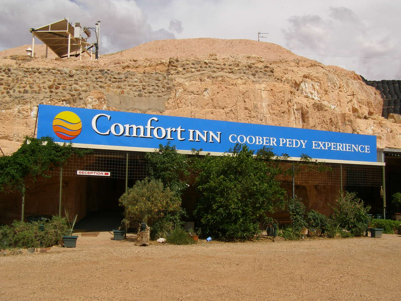 Entrance to an underground motel, Coober Pedy, 2007